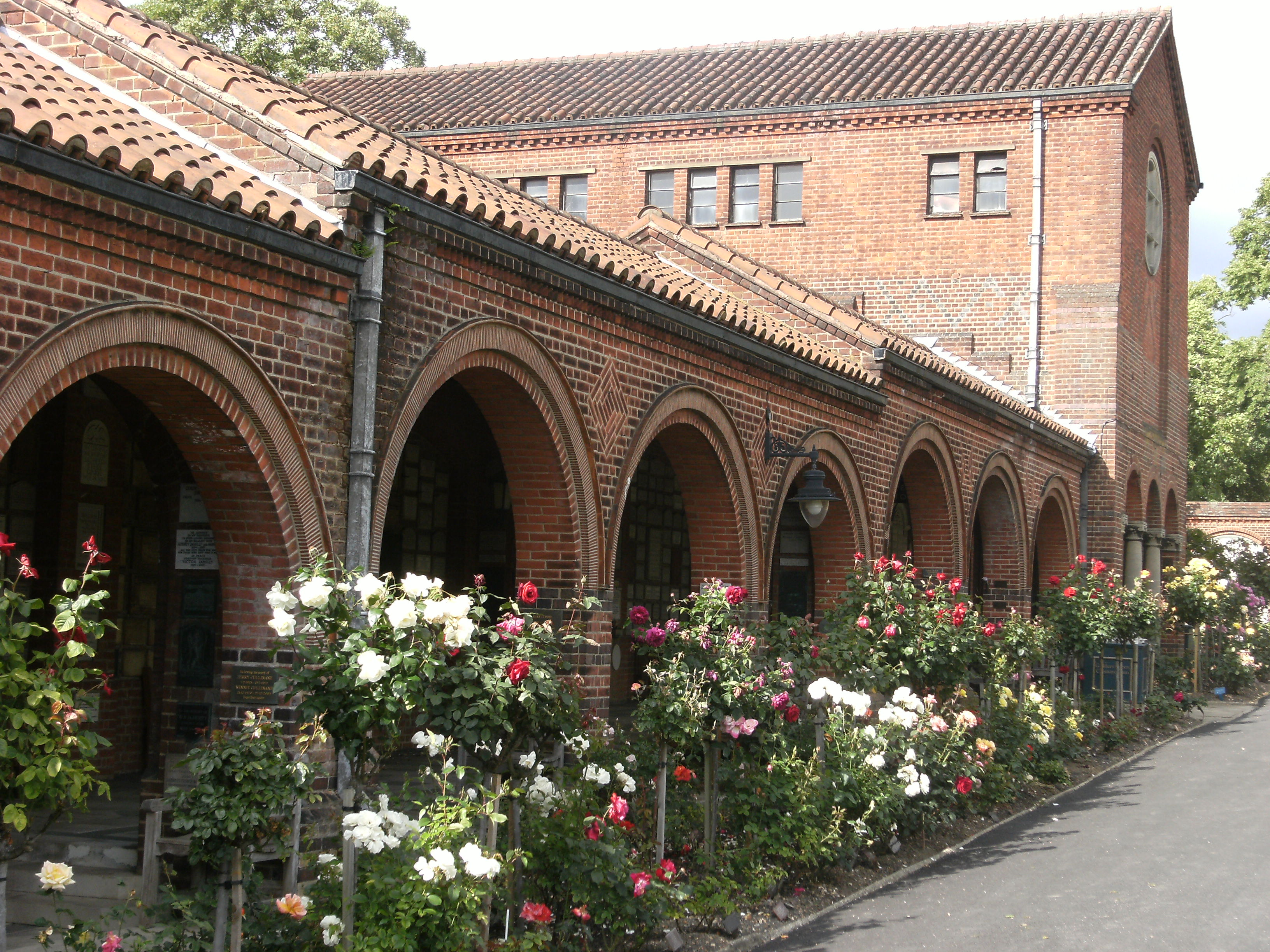 2011-05-31 in London, Golders Green Crematorium